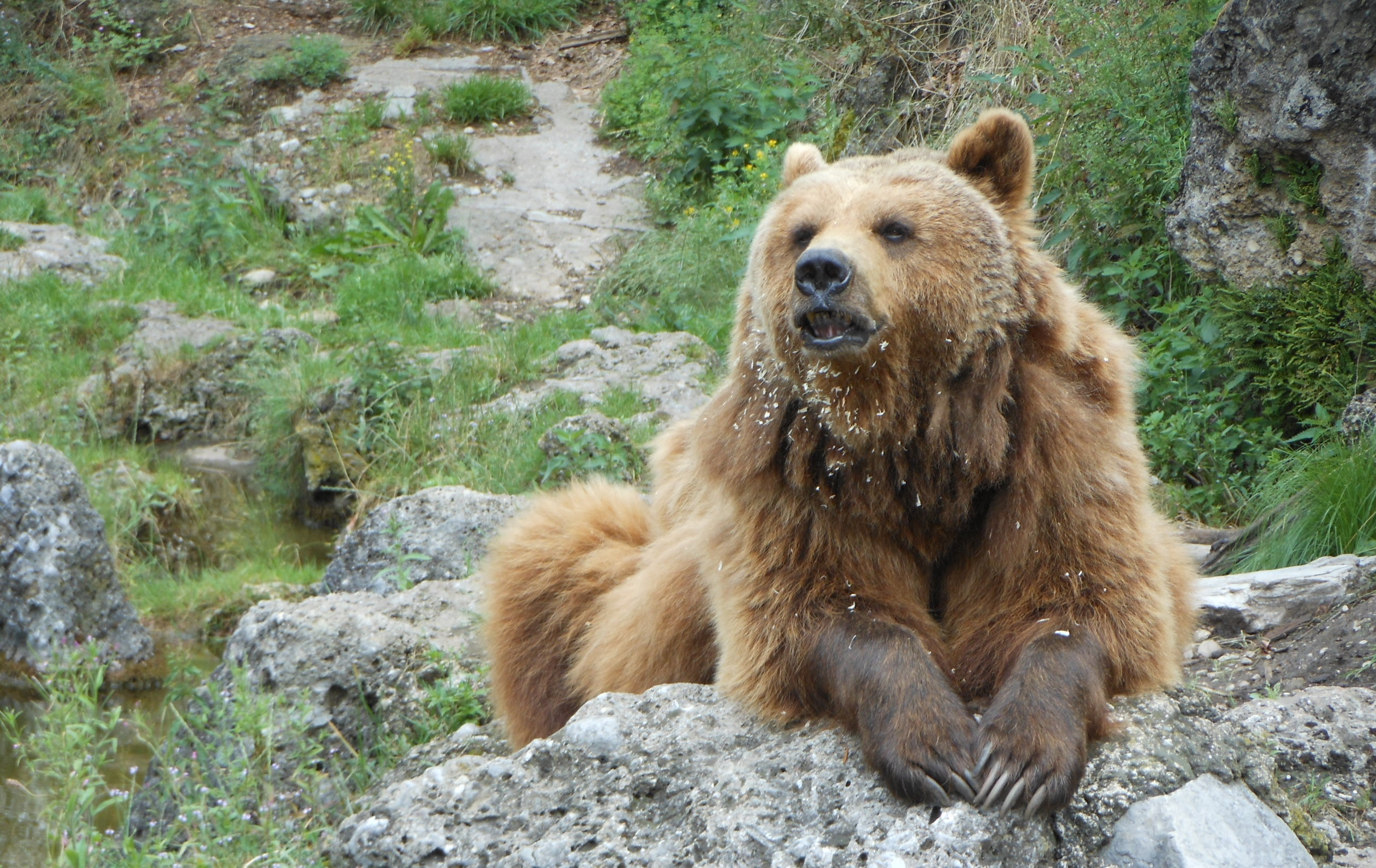 A brown bear on a rock.